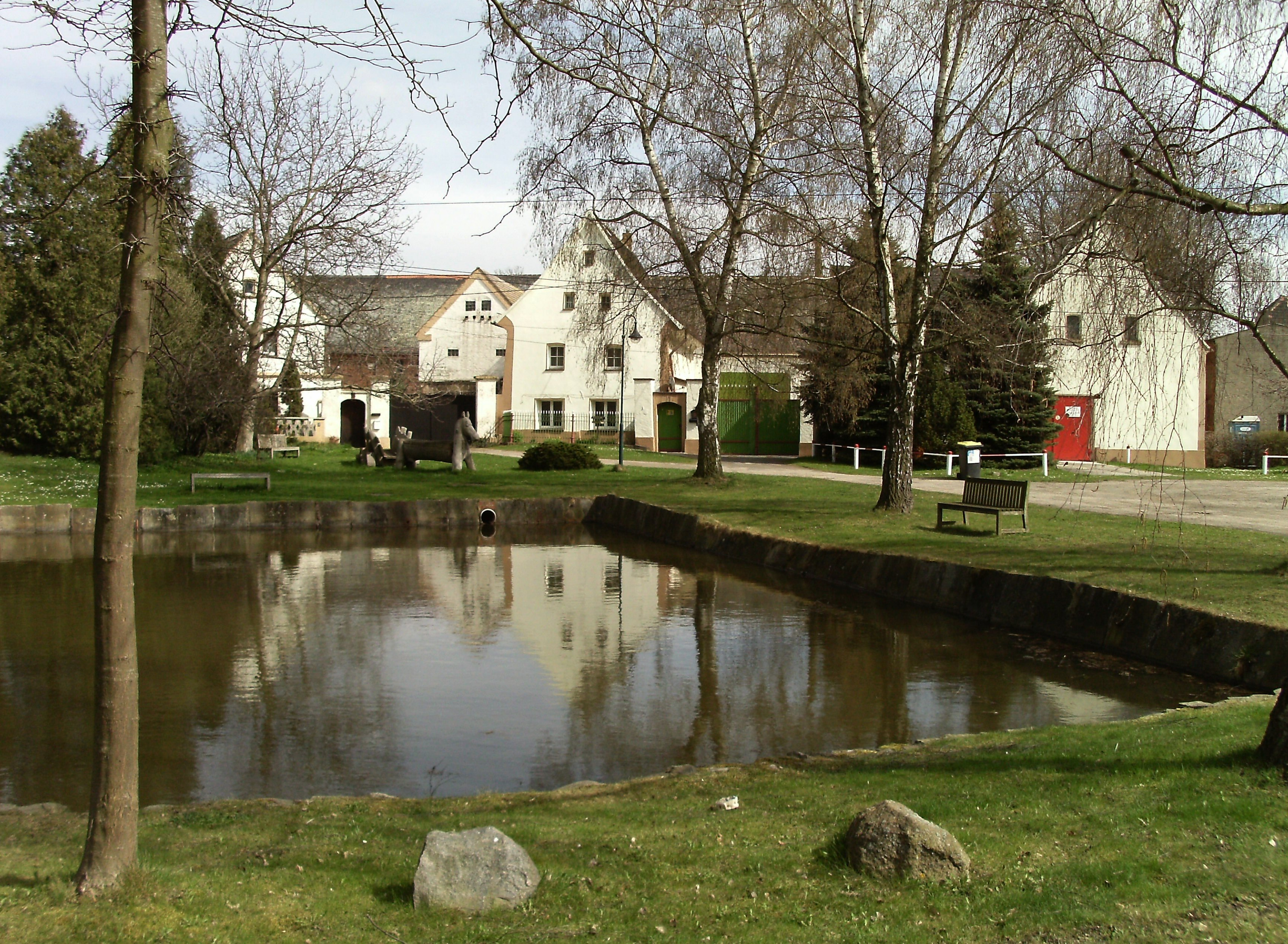 At the pond in Gottscheina (Leipzig, Saxony)